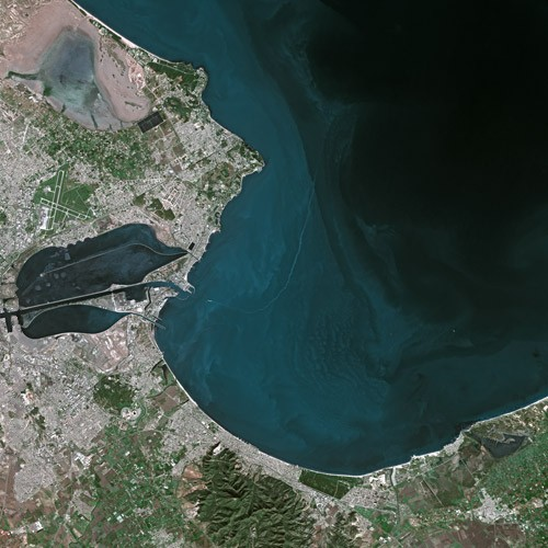 Tunis with Carthage by SPOT Satellite